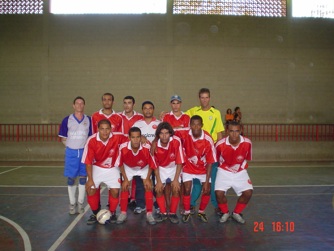 Vilense in JIMI.